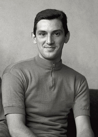 Giovanni Pettenella at the Tokyo Olympics. Tokyo, October 1964